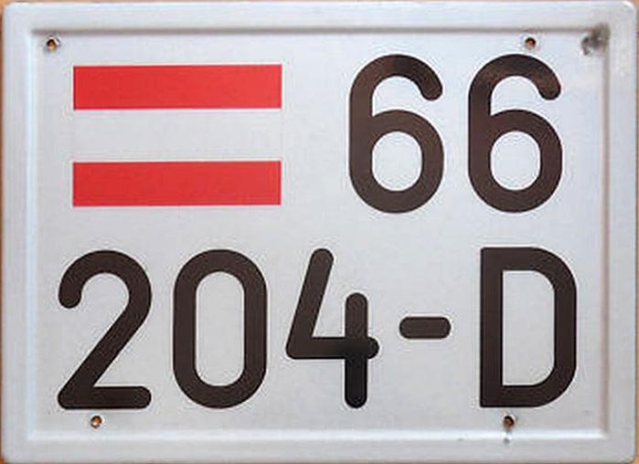 This photo represents an Austrian rear license plate of an "ATF Dingo" infantry mobility vehicle in format used since 2009